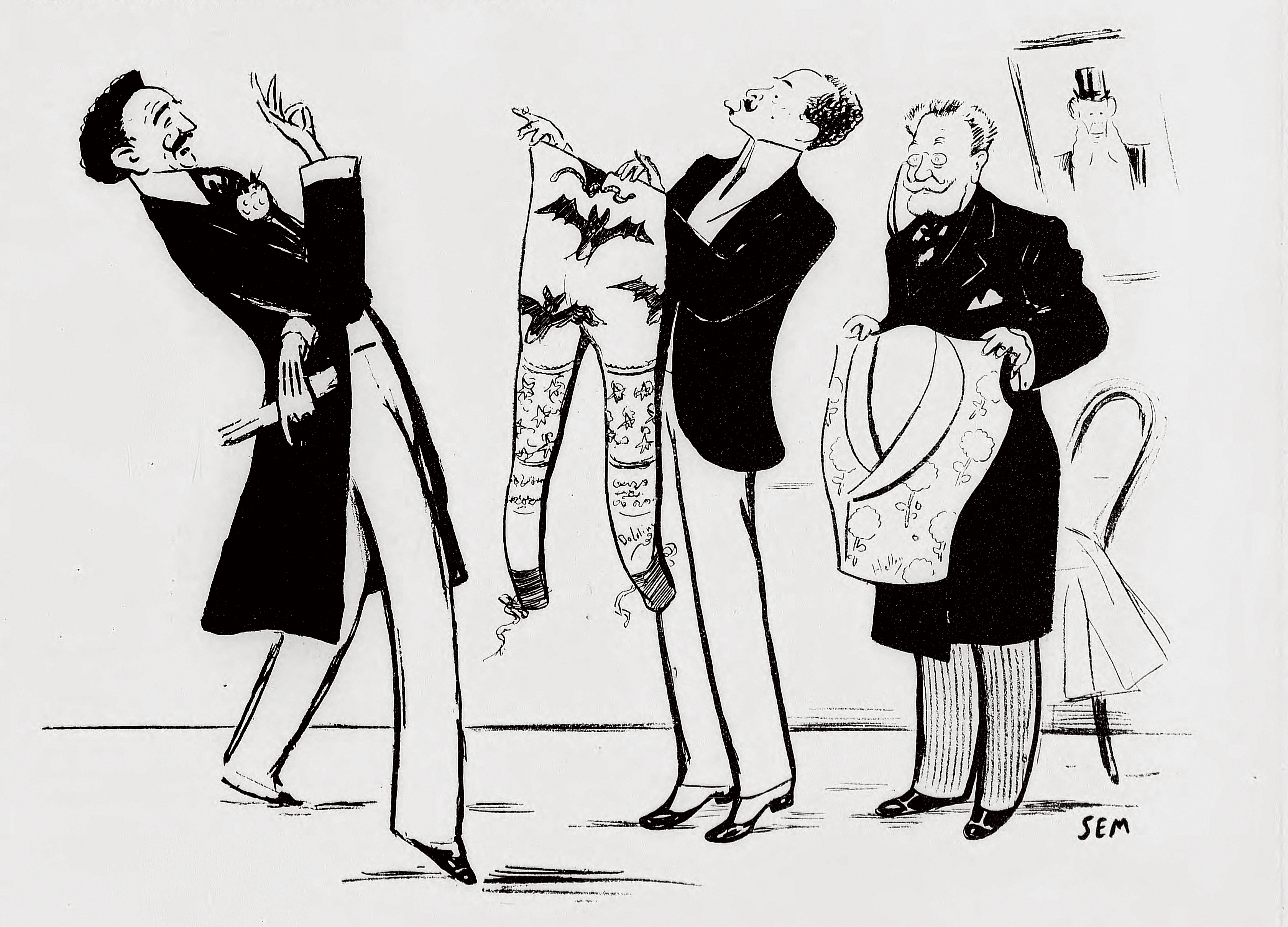 Robert de Montesquiou at Charvet. Caricature in La Vie parisienne